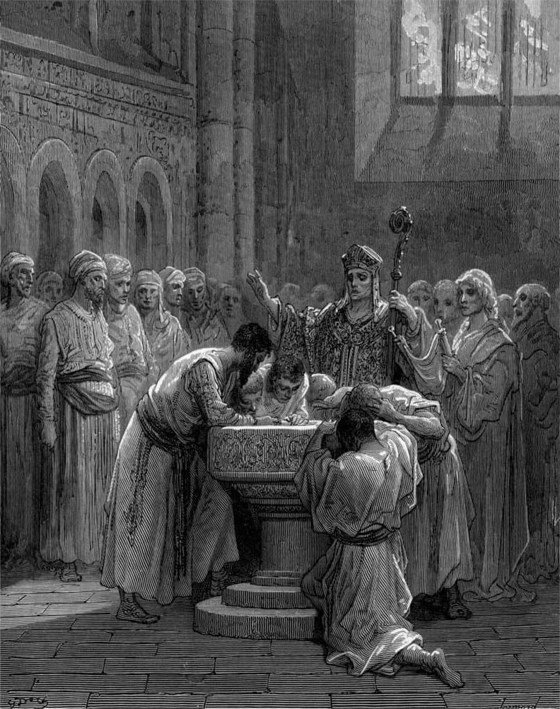 Crusades by Gustave Doré